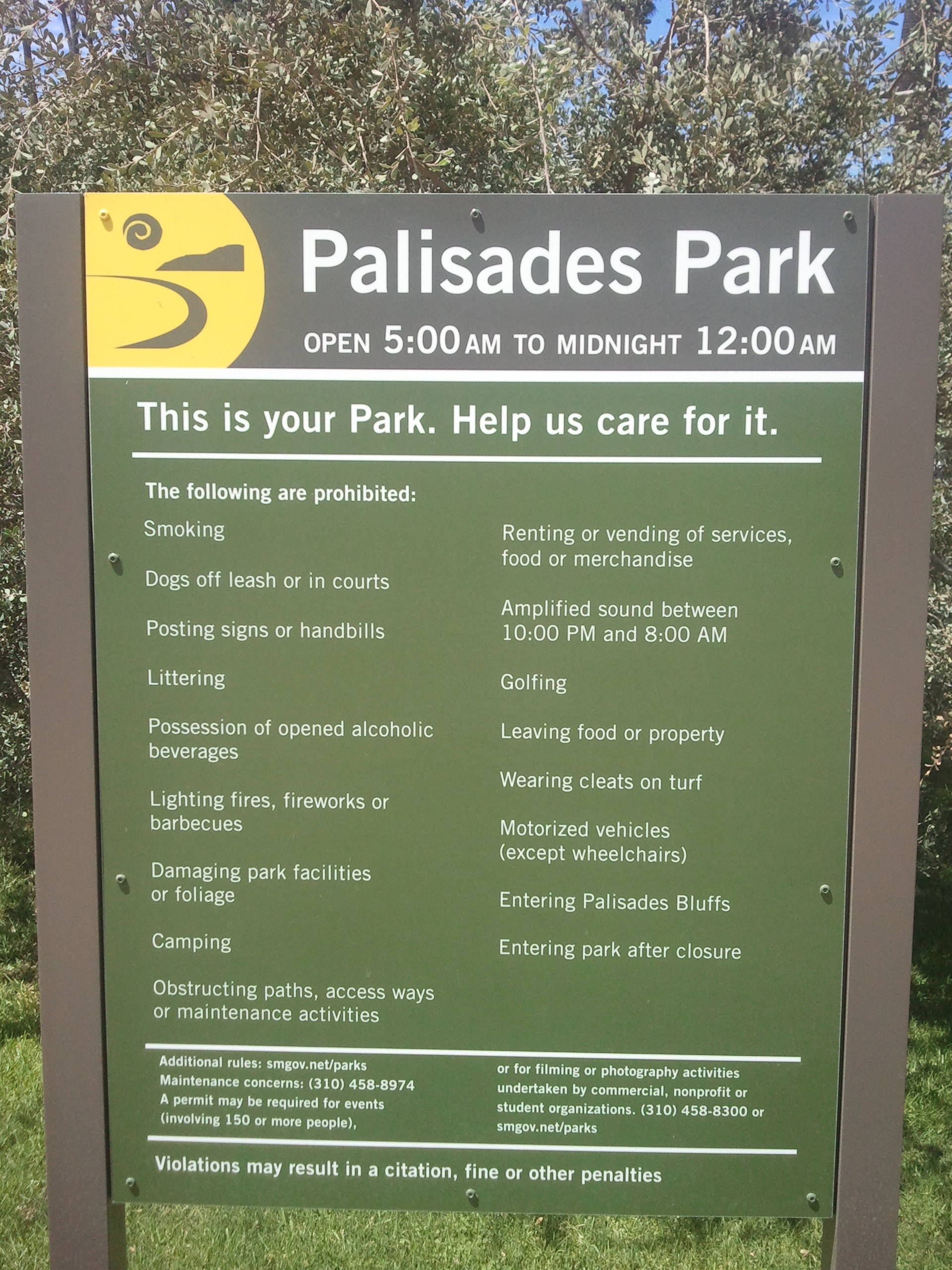 Information sign — Palisades Park, in Santa Monica, California.